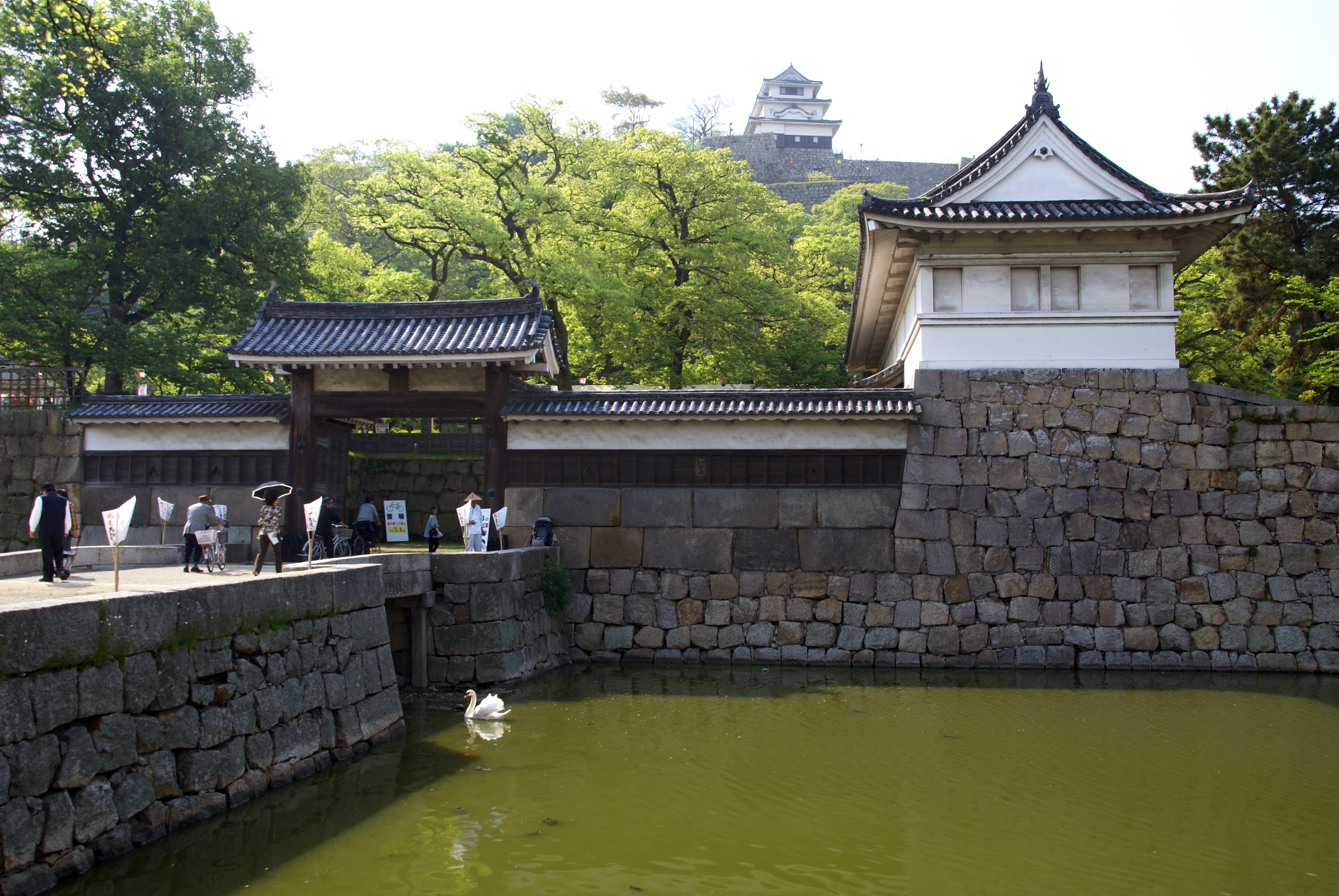 Marugame Castle in Marugame, Kagawa prefecture, Japan